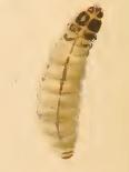 Stainton’s Natural History of the Tineina (1855–1873): Adela violella